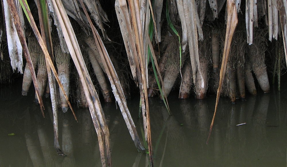 Pandanus tectorius root structures